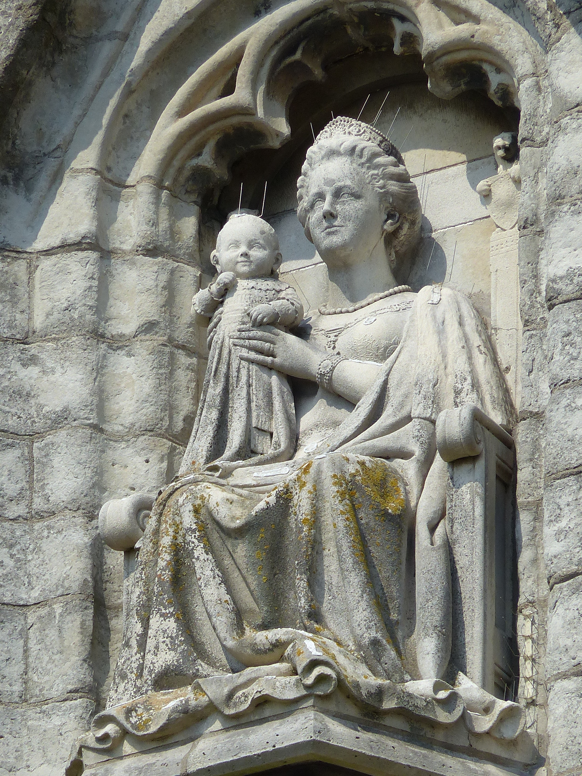 Wilhelmina and Juliana statue, City Hall Middelburg.